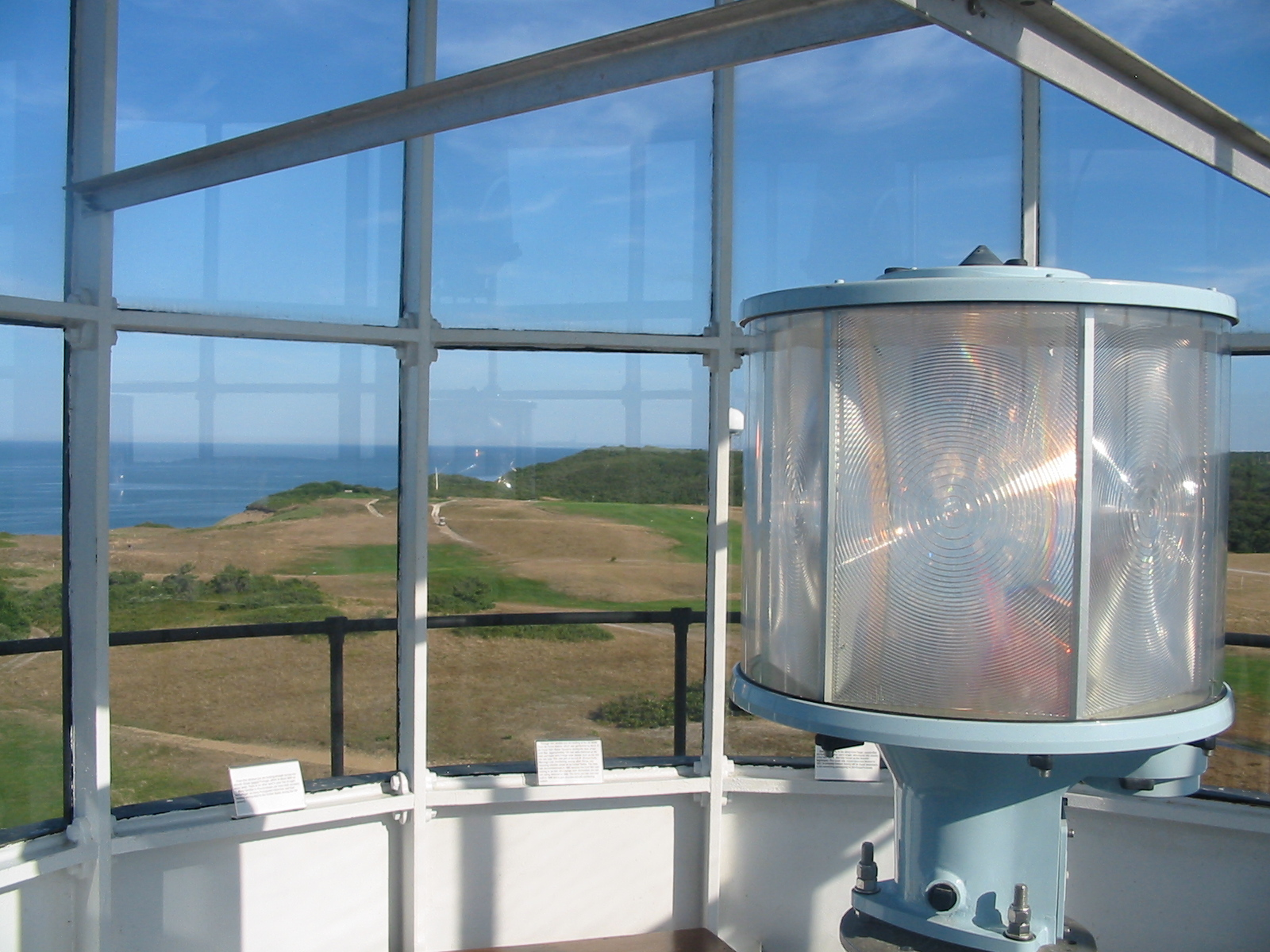 Cape Cod Highland Lighthouse lens array